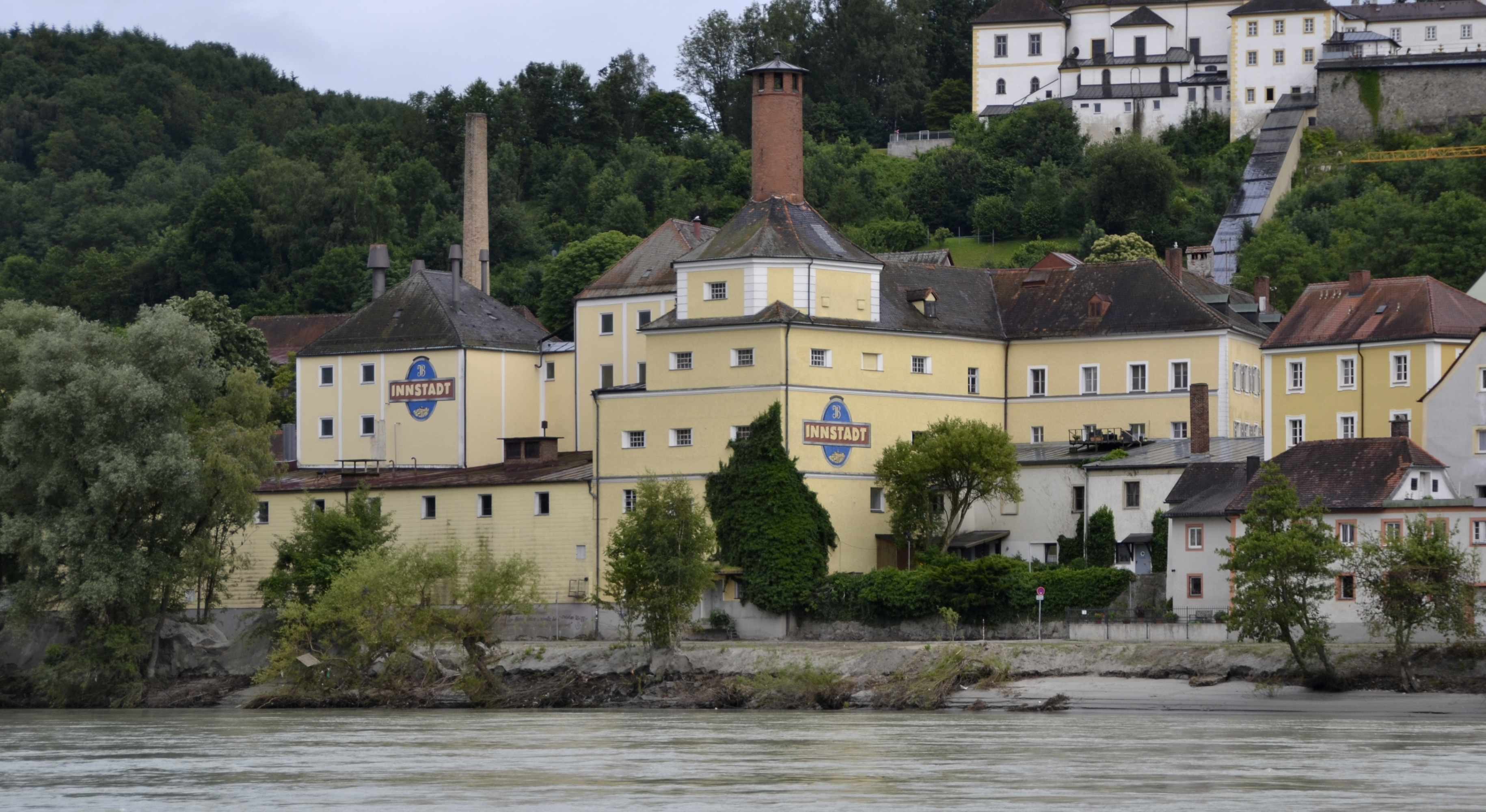 The brewery Innstadt in Passau, Bavaria.